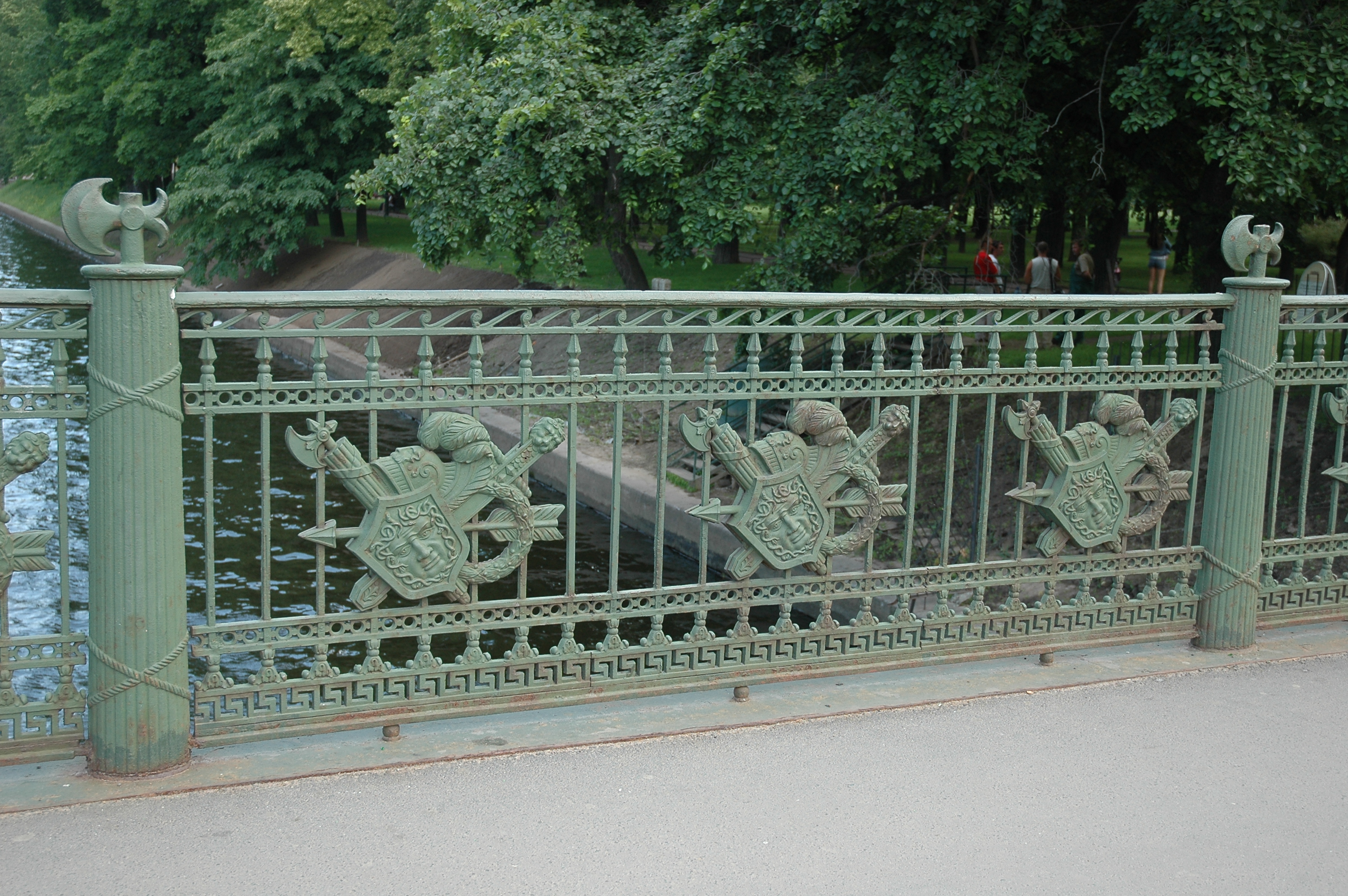 Second Garden bridge across Moika river in St Petersburg (fence)